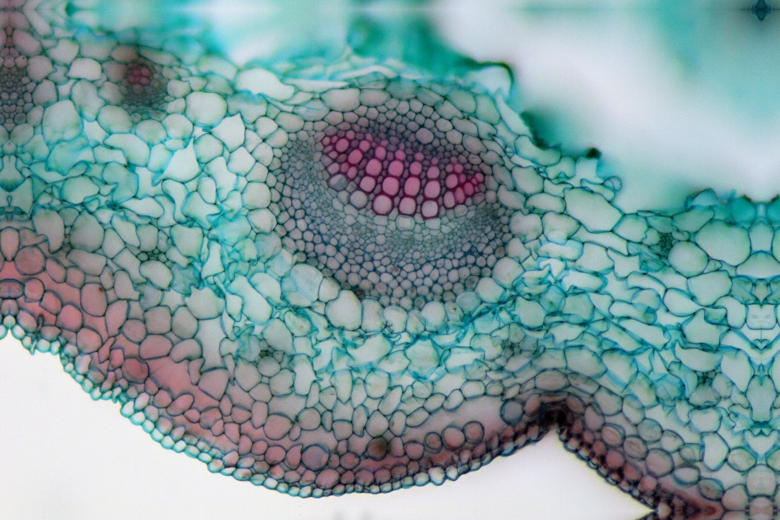 Taraxacum officinale, central leaf vein, Etzold green.